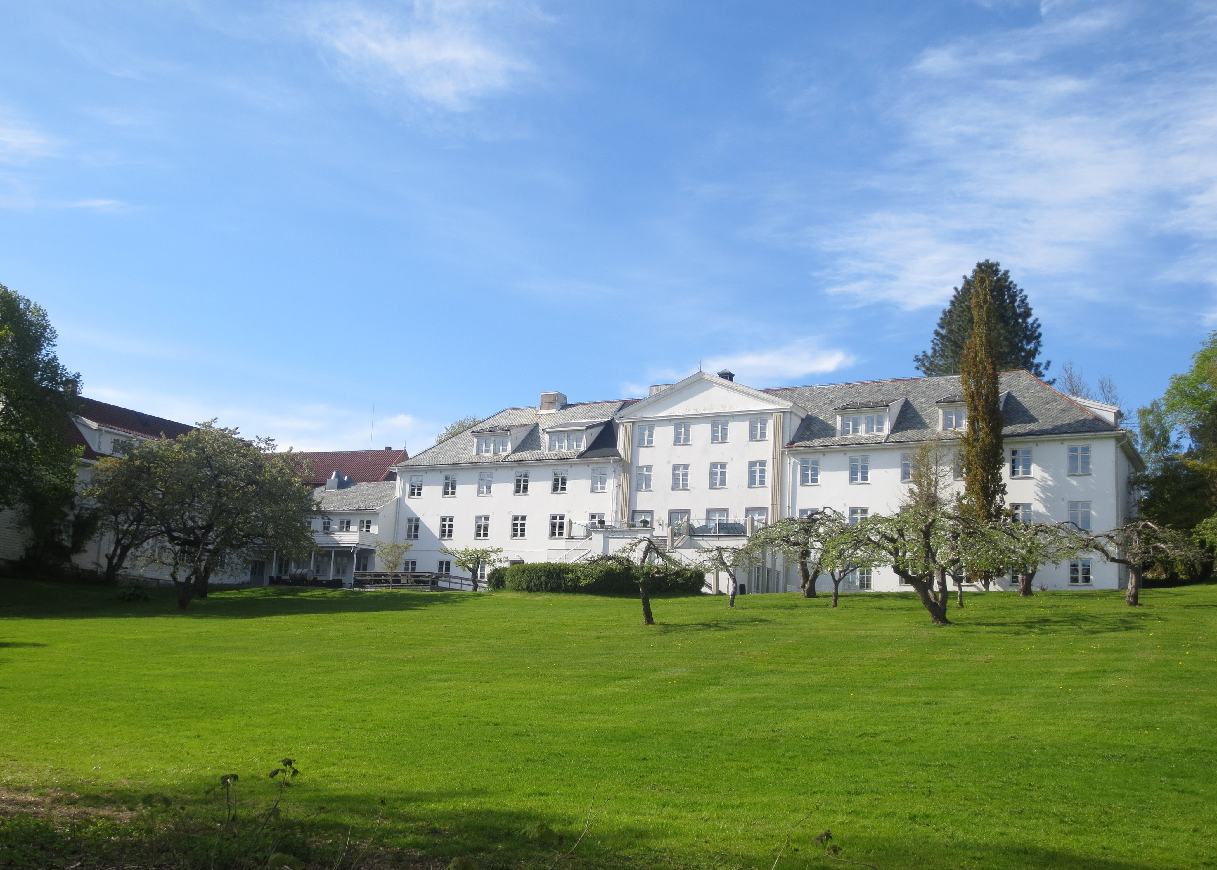 Sem gjestegaard, a traditional manor just South of the Semsvannet lake, in the municipality of Asker, southwest of Oslo, Norway.